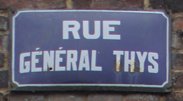 Dalhem, Belgium: Genera Thys Street